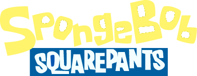 SpongeBob SquarePants vectorized logo